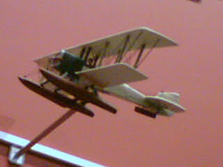 Model of Boeing B&W at Boeing Store / Future of Flight Museum